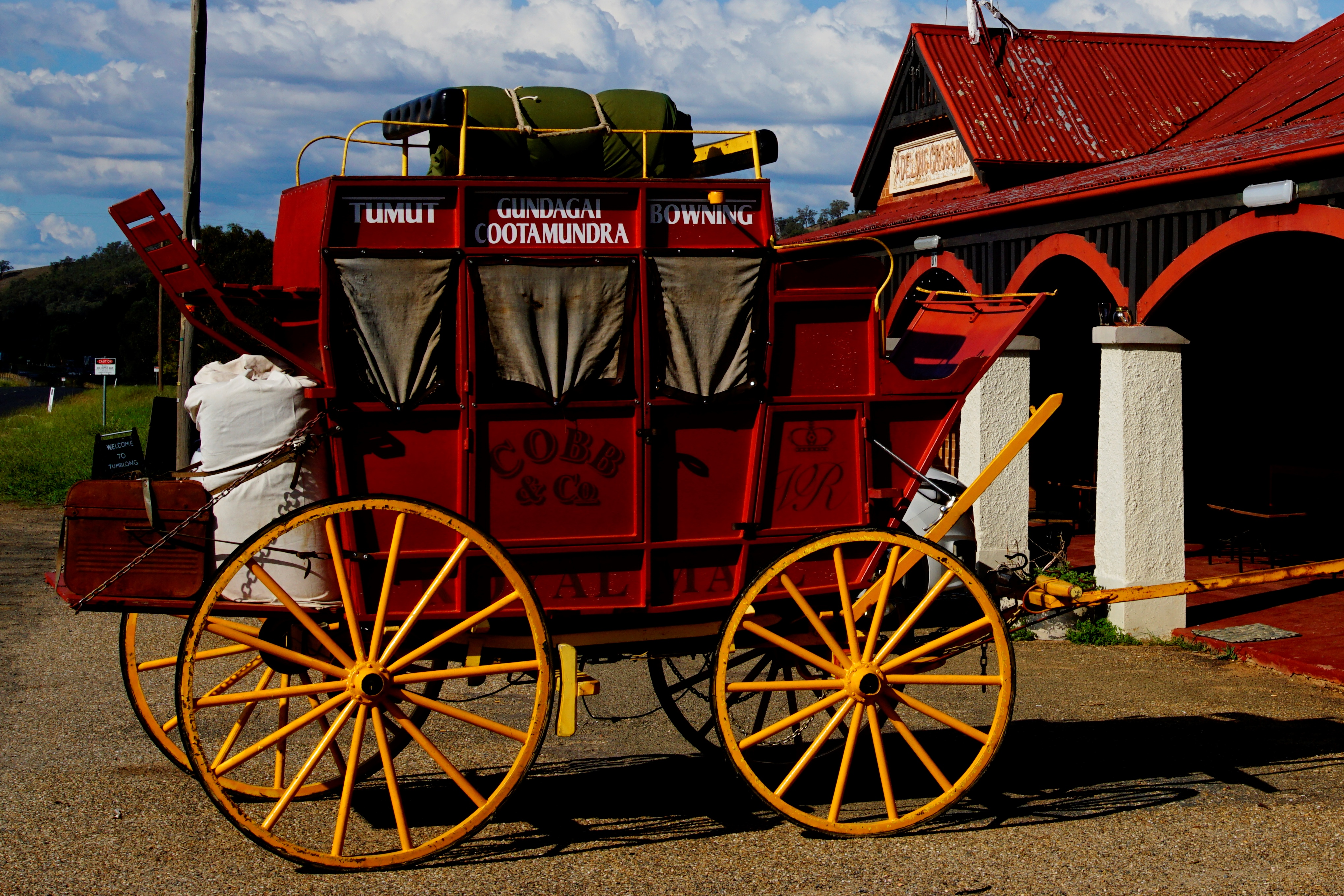 An authentic Cobb and Co coach outside the Tumblong Inn